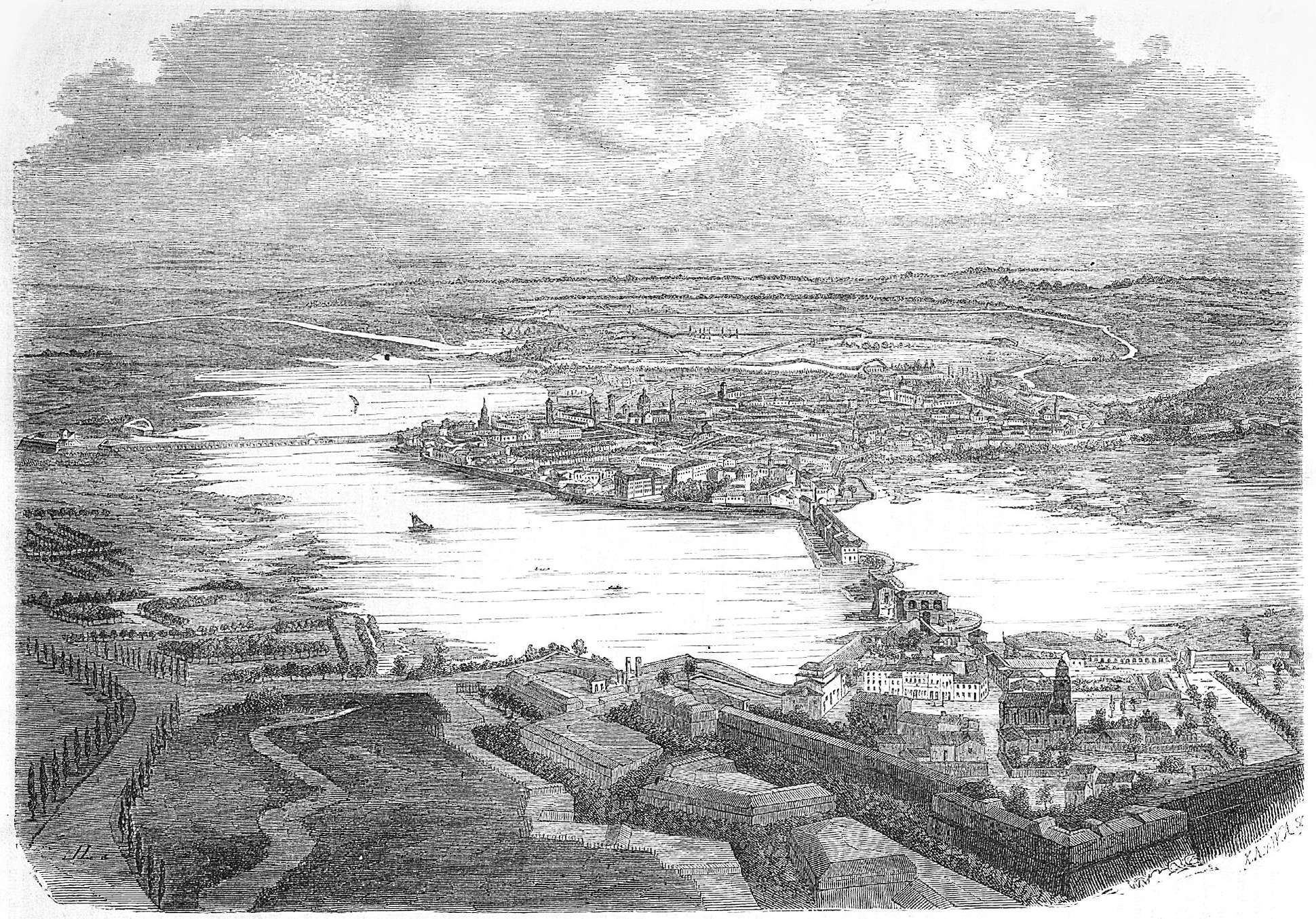 caption: "Mantua."